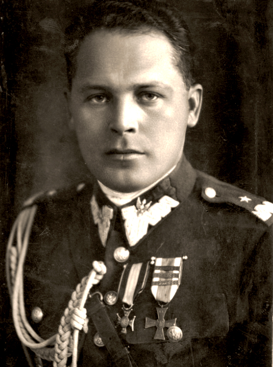 generał brygady II RP